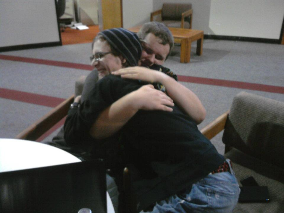 Two people hug in happiness.